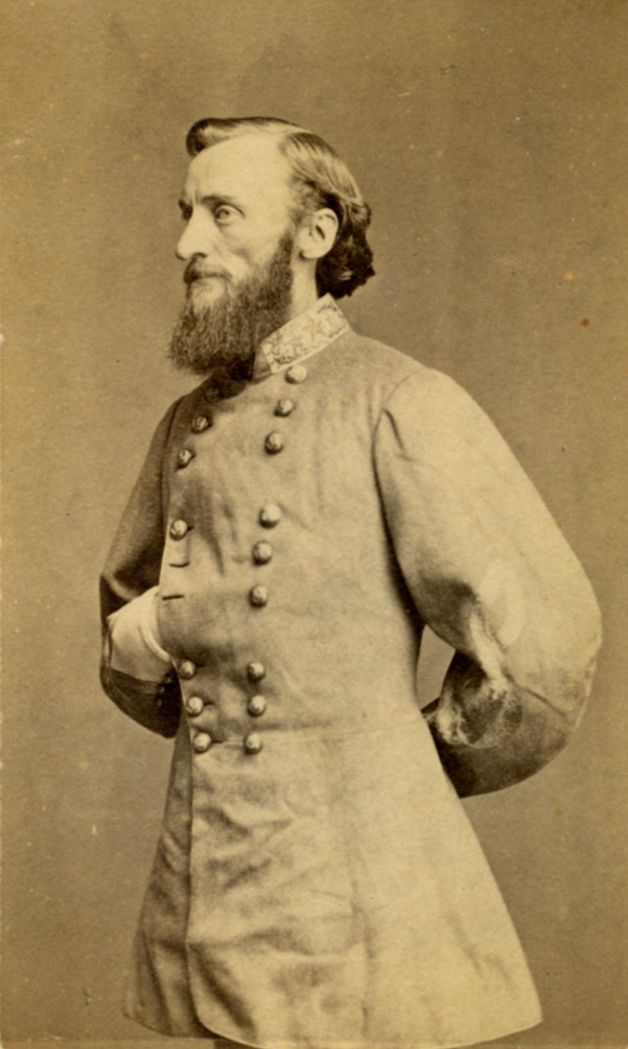 Collection: McCardle (Mrs. W. H.) Photograph Collection Call number: PI/1985.0017 System ID: 104199. Link to the catalog General John S. Marmaduke, CSA. Portrait carte de visite. Photographer: Charles D. Fredricks Please see our profile page for information on ordering. Scanned as TIFF in 2010/10/01 by MDAH. Credit: Courtesy of the Mississippi Department of Archives and History